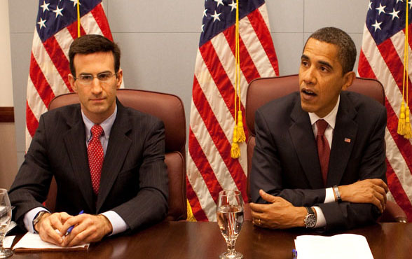 Peter R. Orszag and Barack Obama